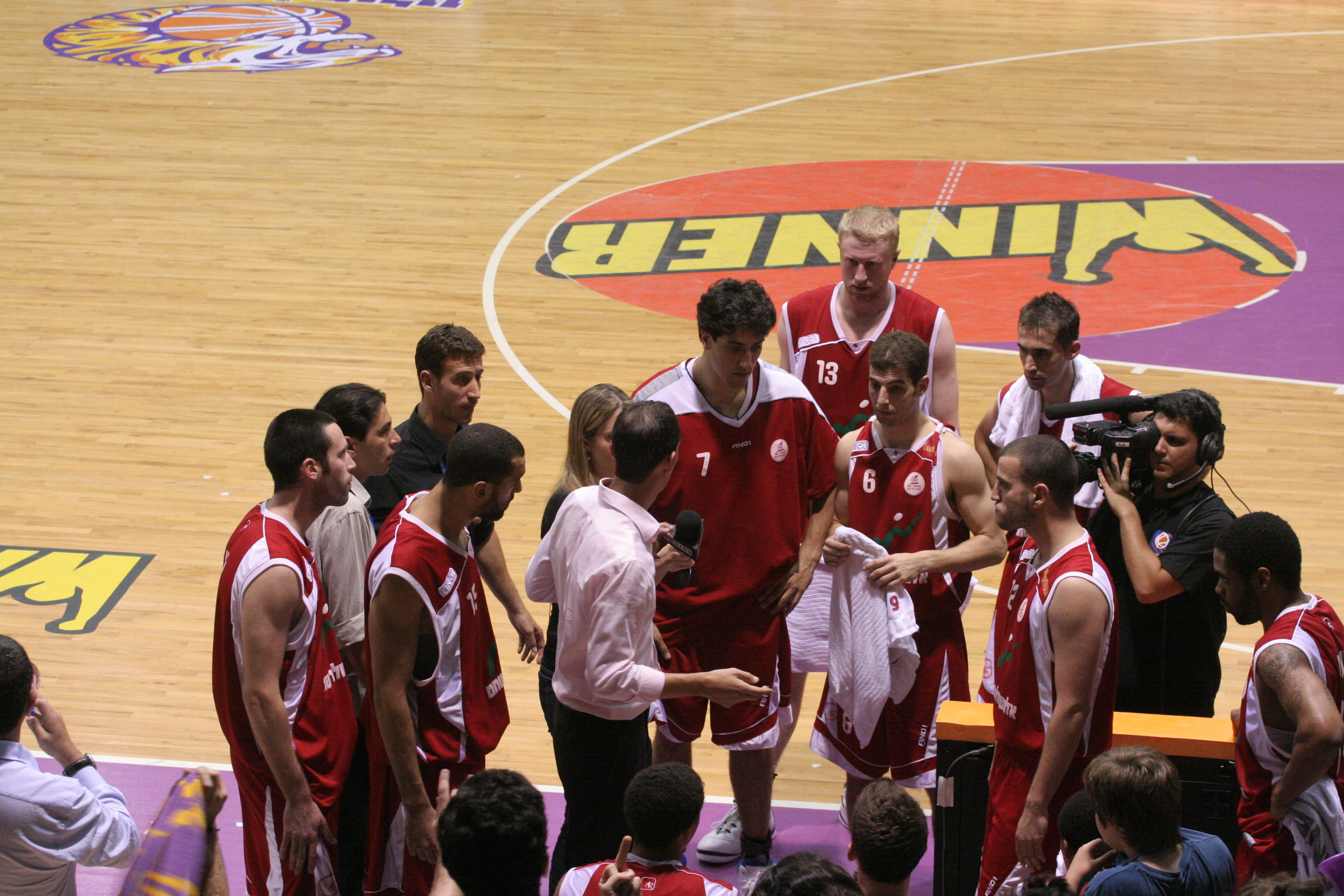 Hapoel Gilboa Galil With Oded Katash during the time out in the game with Hapoel Holon